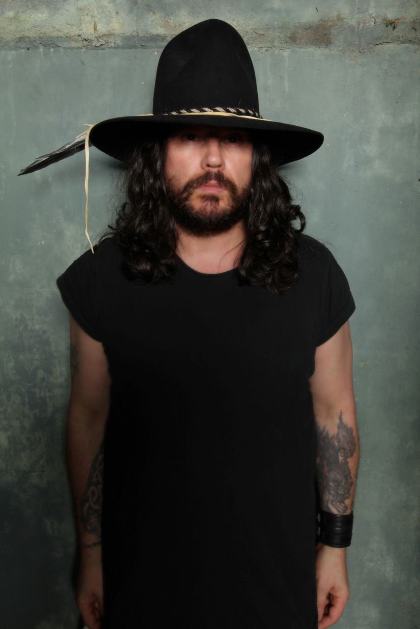 Ian Astbury, 2010